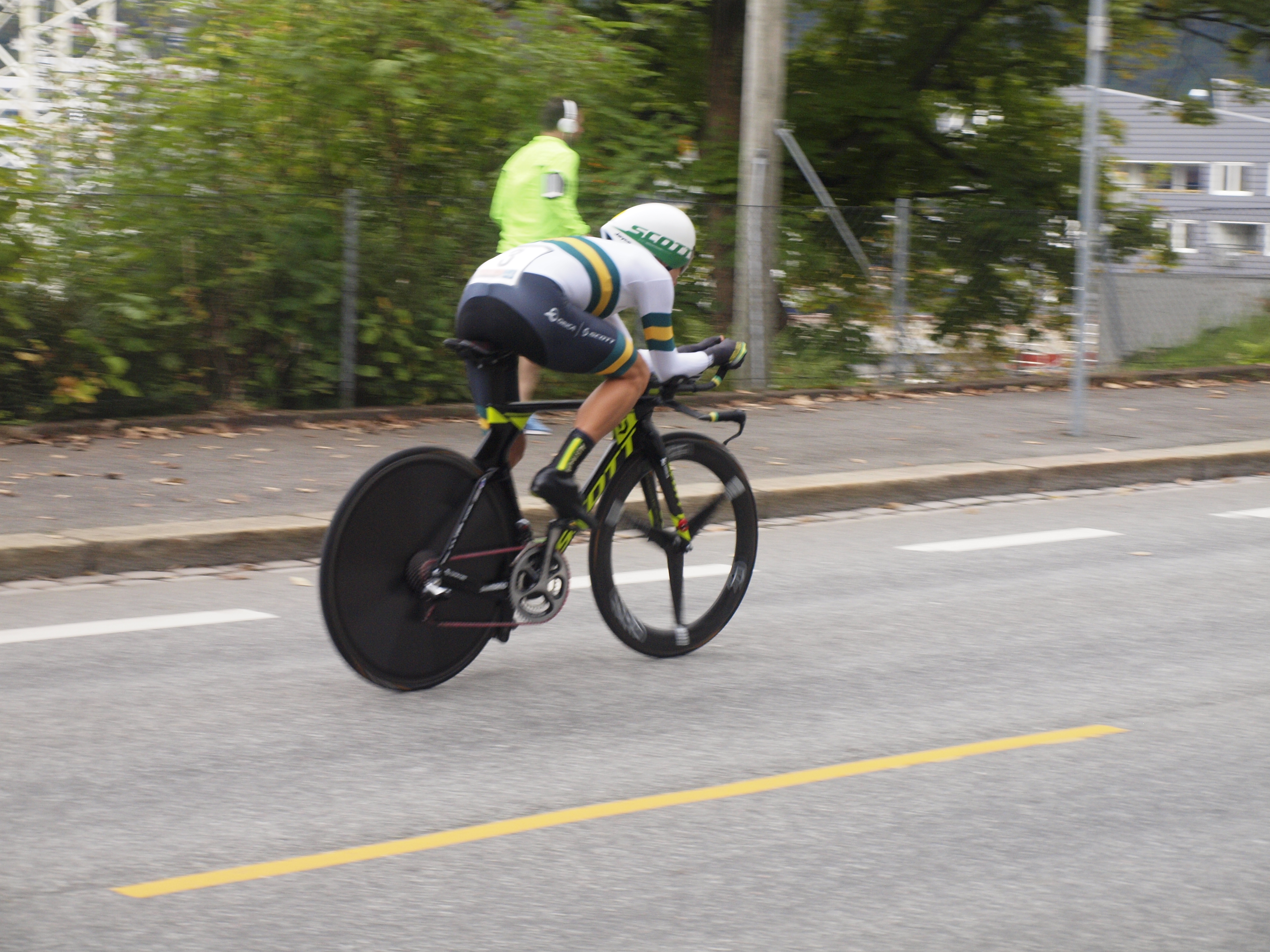 Katrin Garfoot at the 2017 UCI World Championships